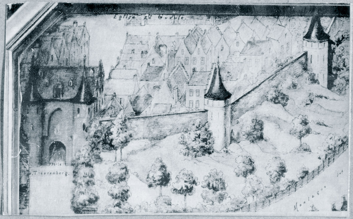 Treurenberg Gate (Brussels, Belgium). Detail of a mural painting (1857) by François Stroobant (1819-1916)